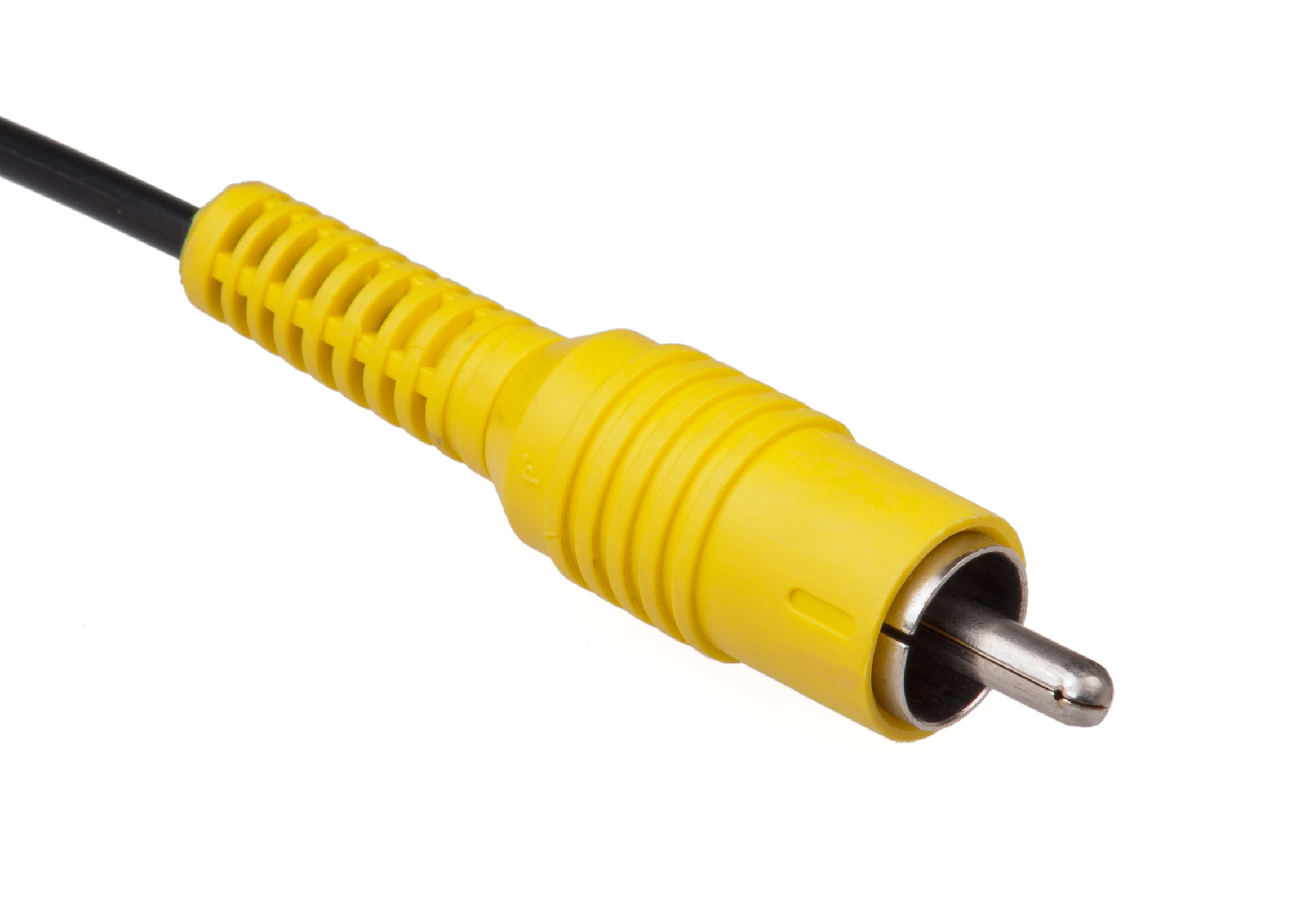 A composite cable, used for hooking up video equipment.